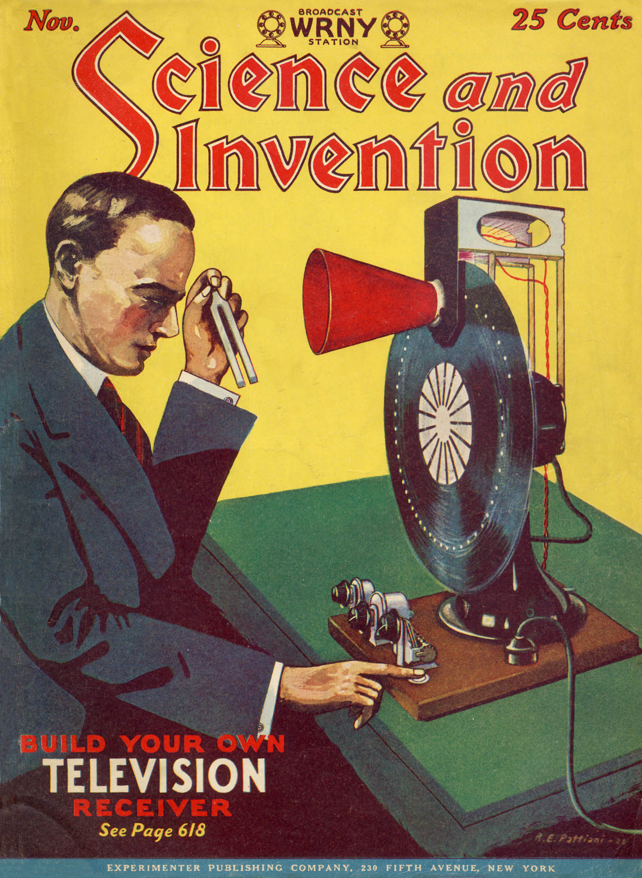 Science & Invention, November 1928. Volume 16 Number 7. Hugo Gernsback Editor-in-Chief. Cover Art by R. E. Pattiani. Published by Experimenter Publishing Company. New York, NY. The page numbers were on an annual basis, not per issue. This issue had pages 577 to 672. The magazine is 8.5 by 11.5 inches.